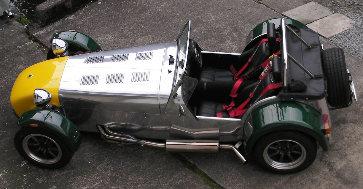 Caterham Seven 1700BDR (1991)